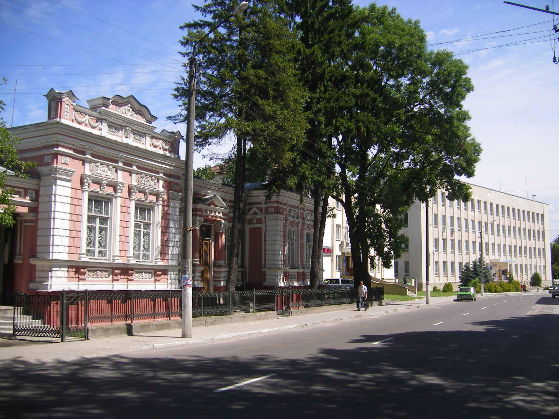 Ostroh, street view